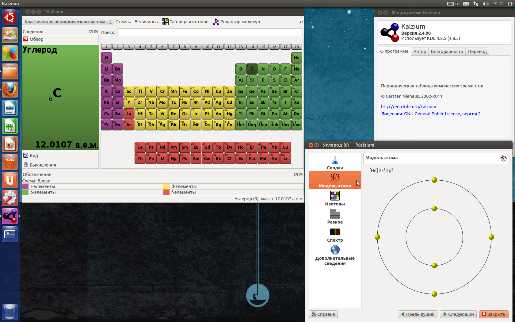 Kalzium 2.4 in Edubuntu 12.04. In Russian.